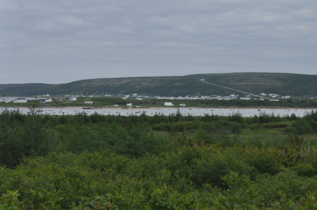 Forteau, Labrador; the Trans-Labrador Highway can be seen rising above the town.